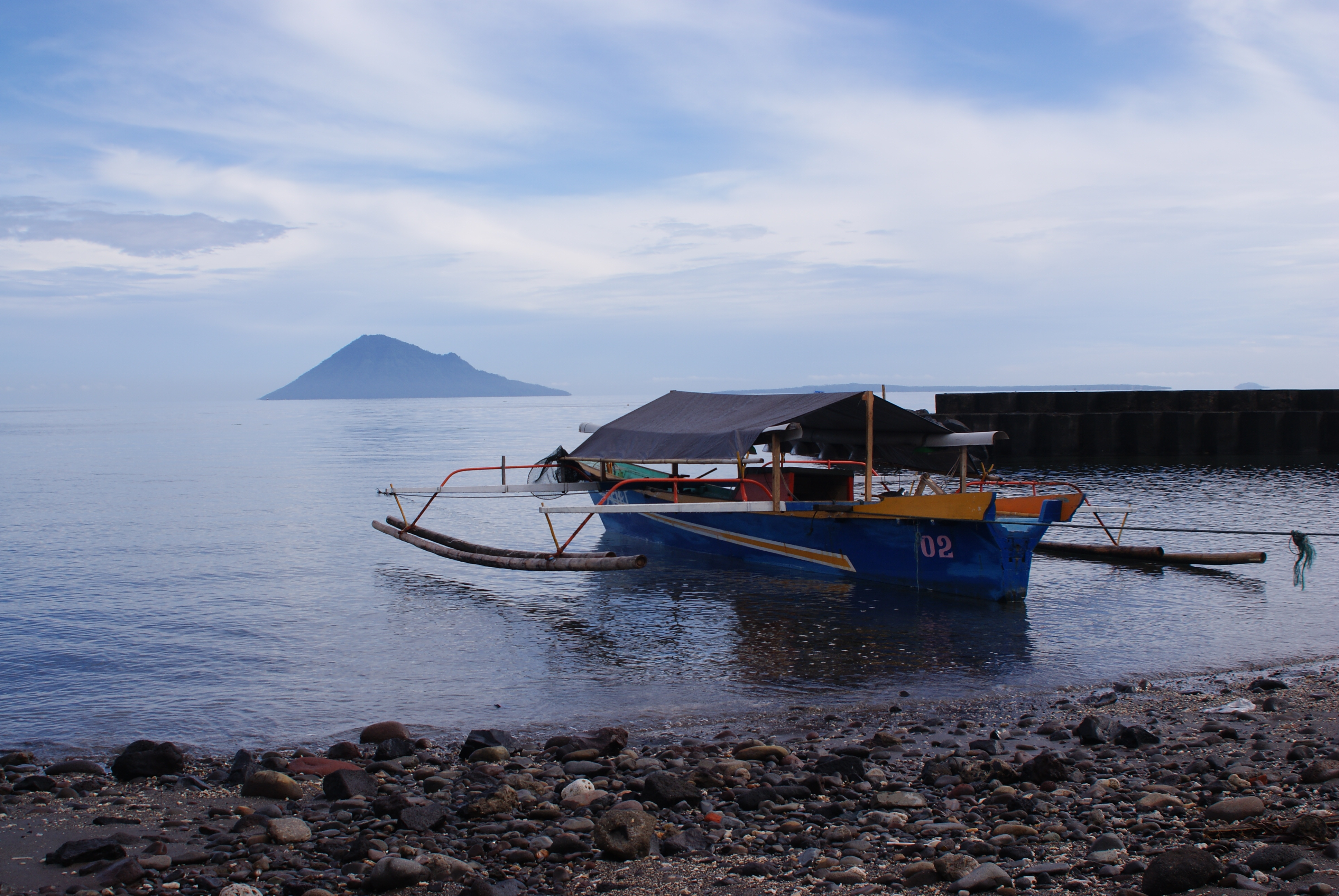 Kalasey Beach, Manado, Indonesia